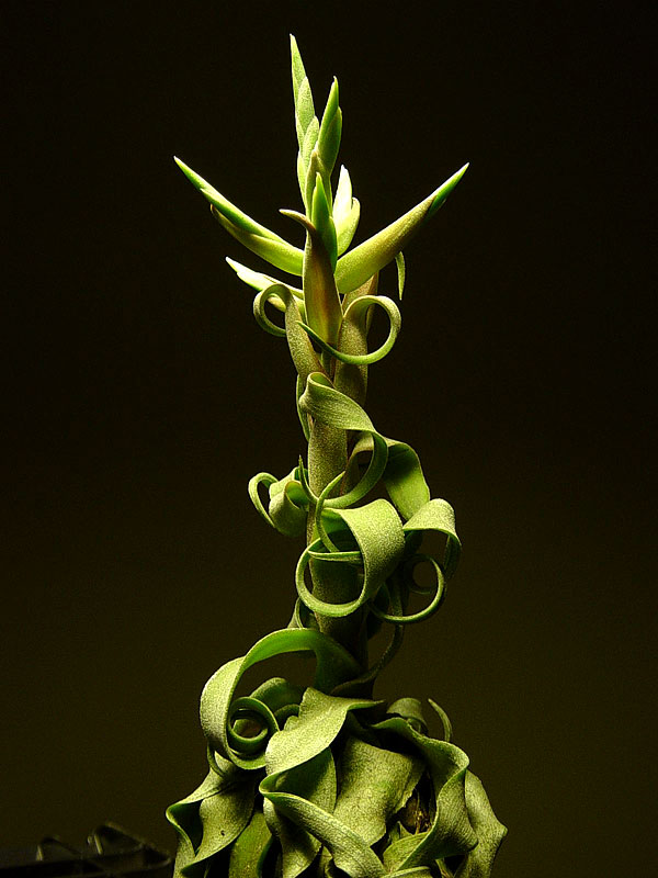 Tillandsia streptophylla, fam. Bromeliaceae.